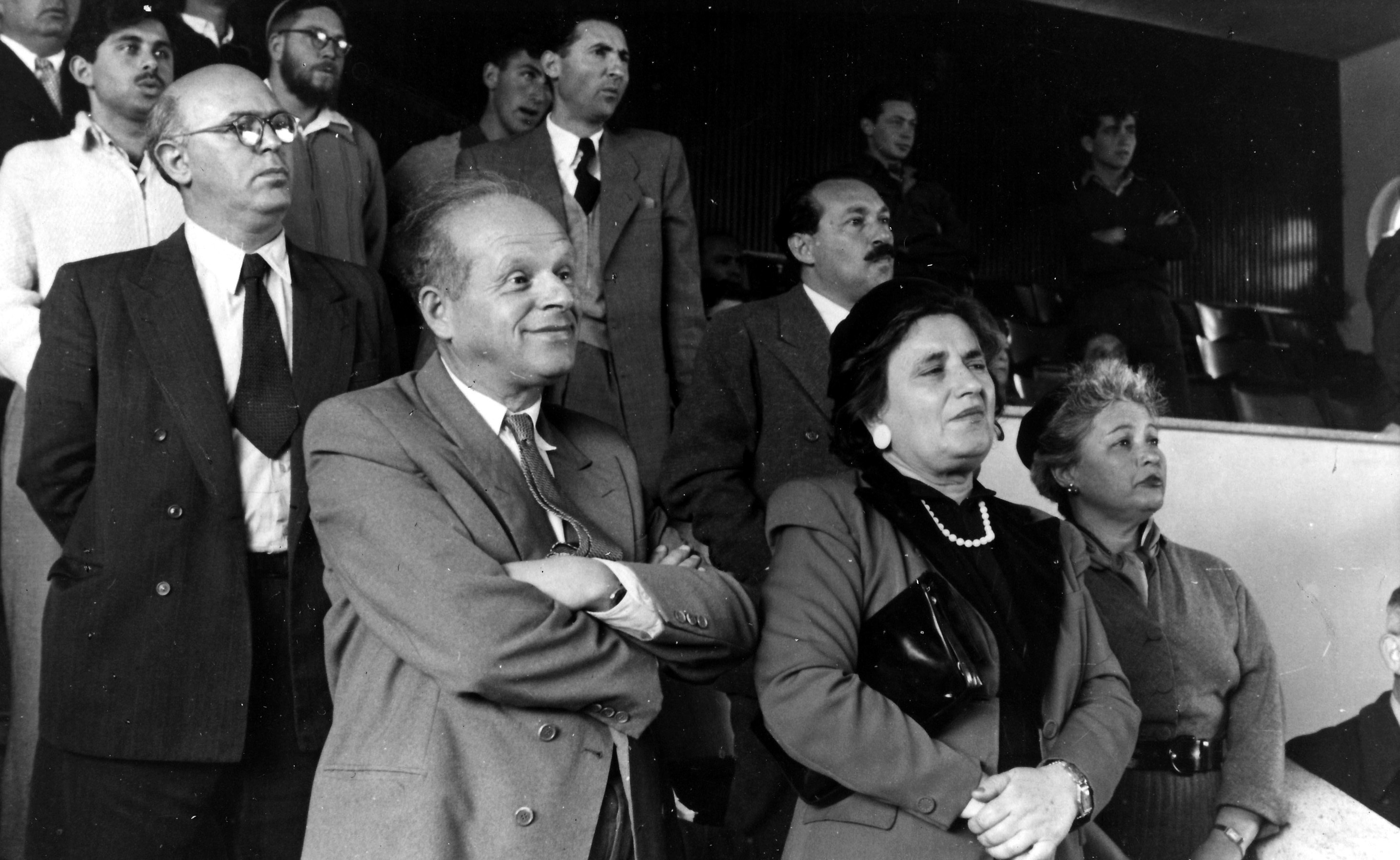 Music conference, 1954. At the front, L–R: Kol Israel Director of Programs Dr. Yeshayahu Spira and music critic Olya Silberman